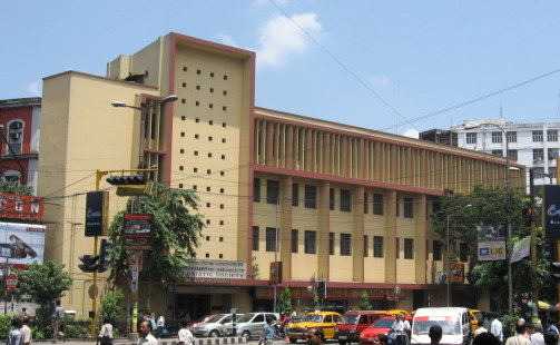 The Asiatic Society at the crossing of Jawaharlal Nehru Road and Mother Teresa Sarani, Kolkata.